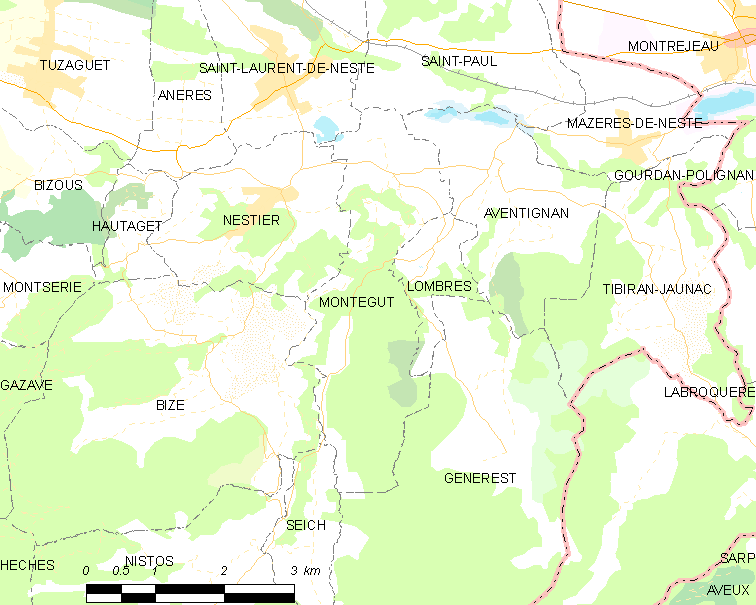 Map of French municipality